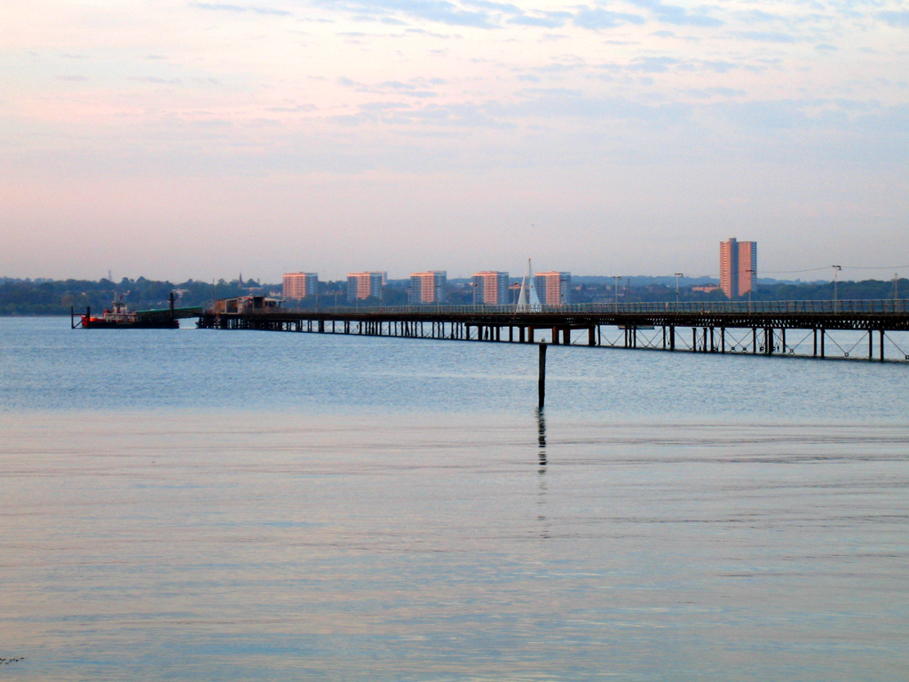 This is a photograph of Hythe Pier, situated at Hythe, United Kingdom.